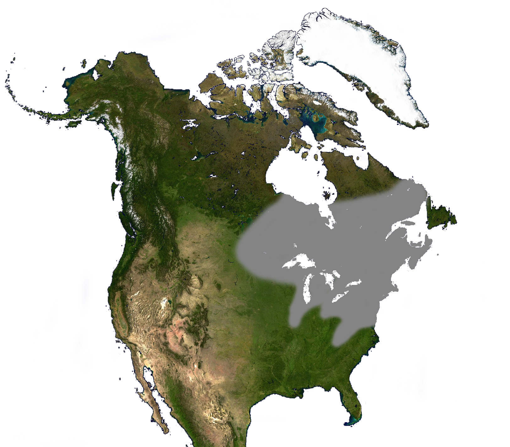 This map shows the range of Condylura cristata (Star-nosed Mole) across North America.